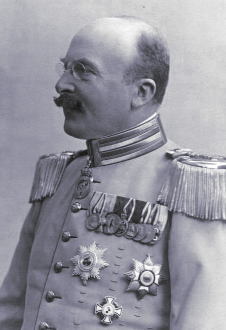 Eduard, Duke of Anhalt